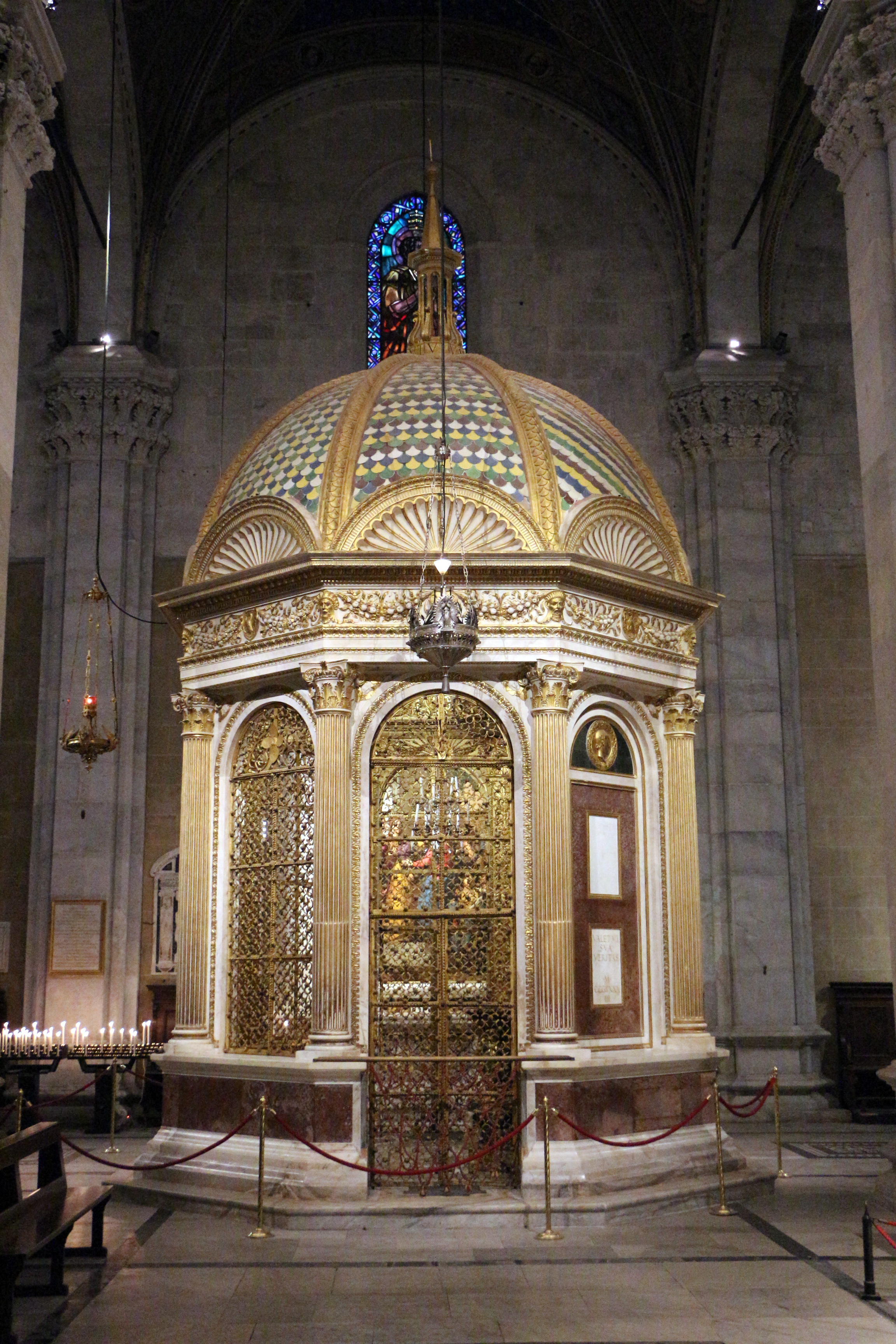 Duomo (Lucca) - Interior